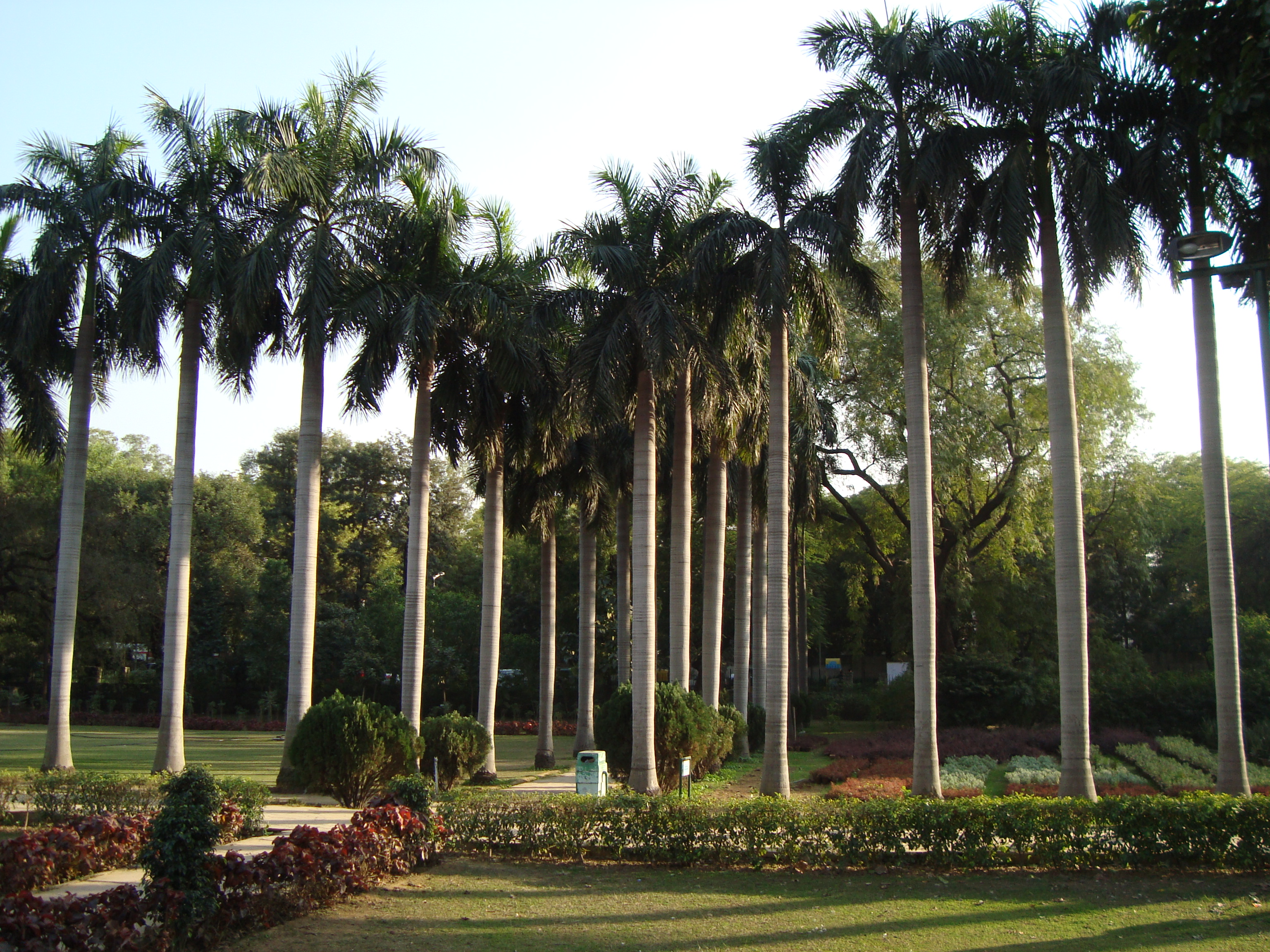 A view from Lodhi Gardens, New Delhi, India.